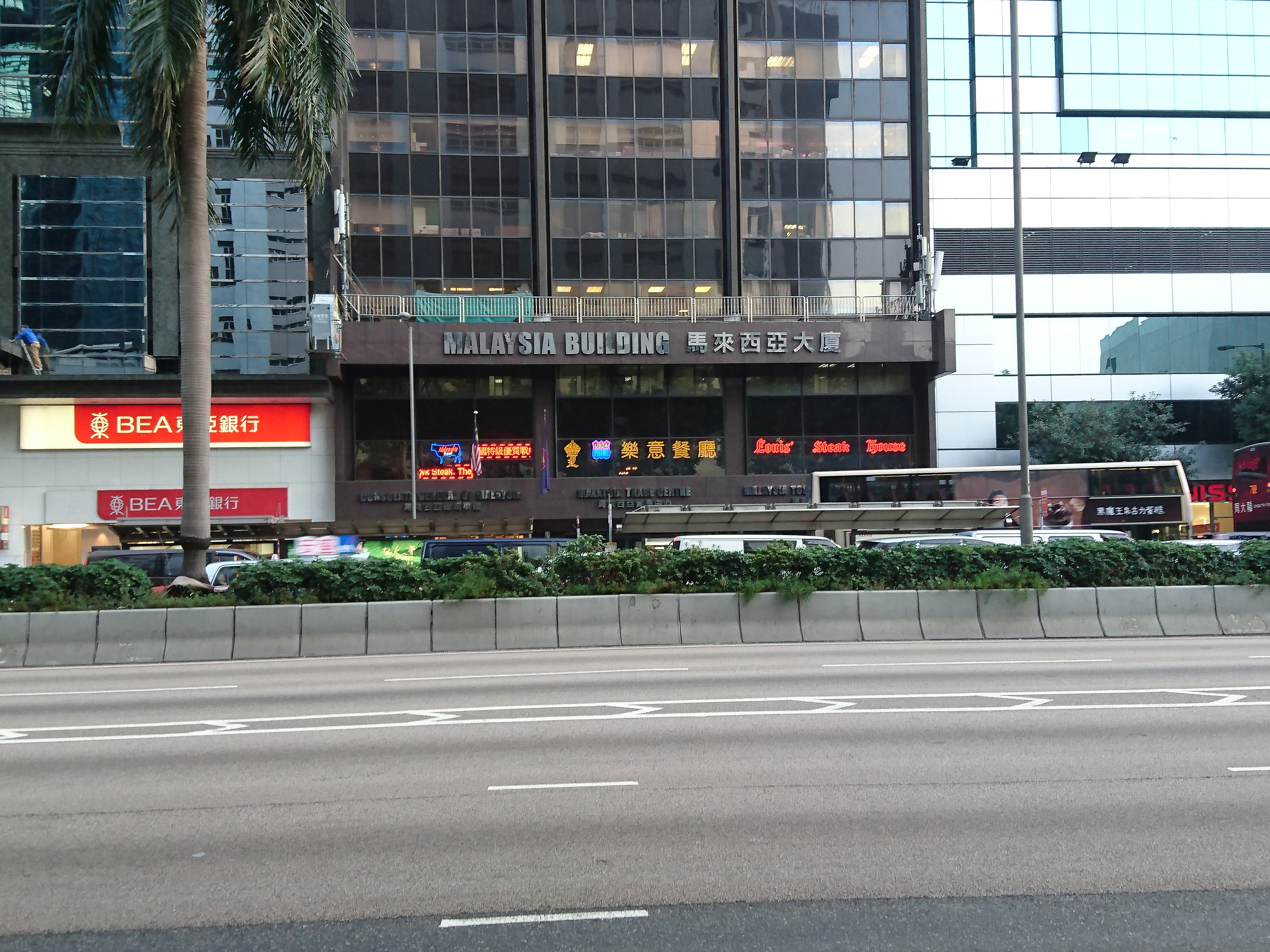 Malaysia Building Louis' Steak House